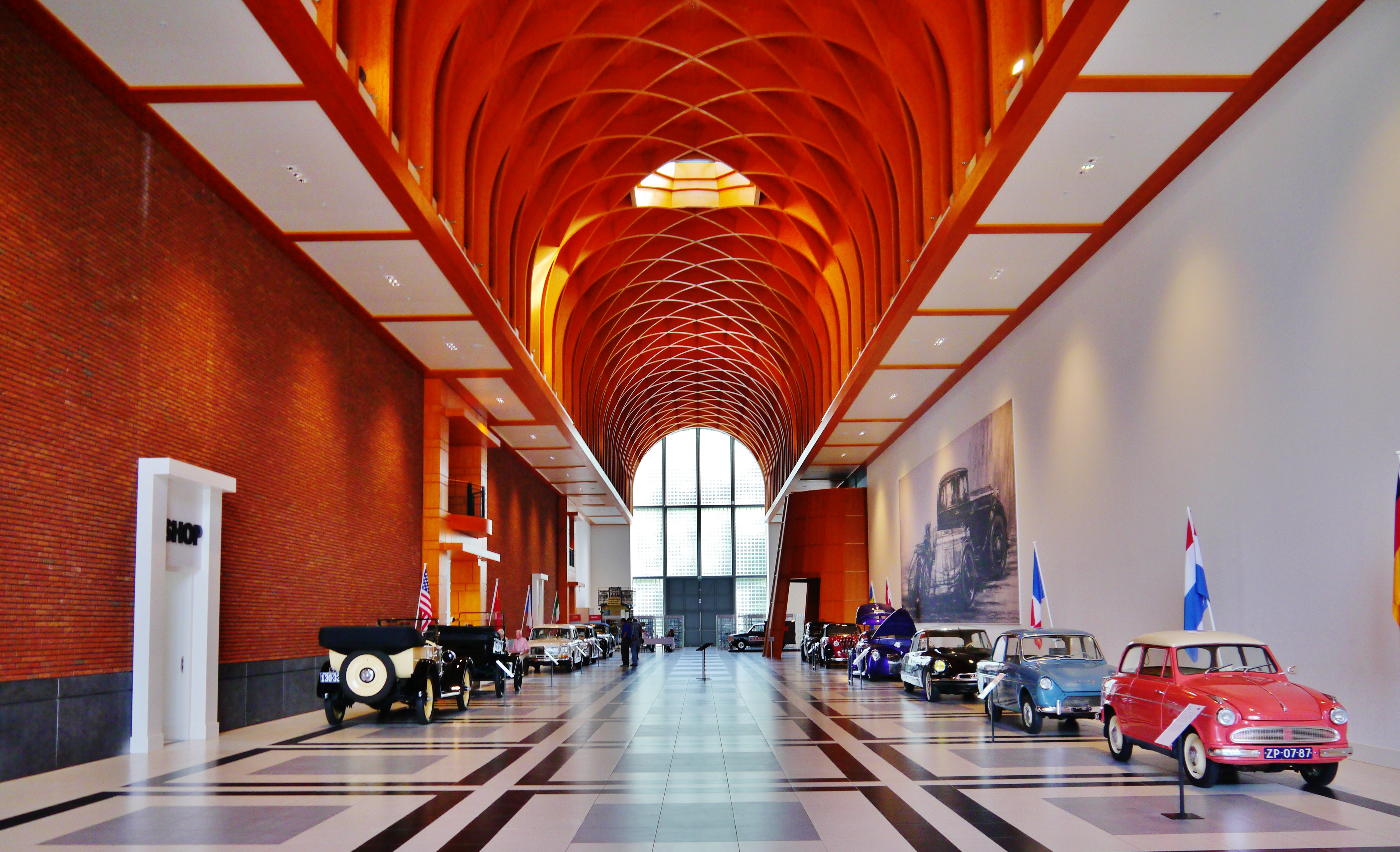 National Automobile Museum/Louwman Museum, The Hague, Province of South Holland, Netherlands